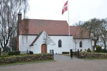 Torsted Church